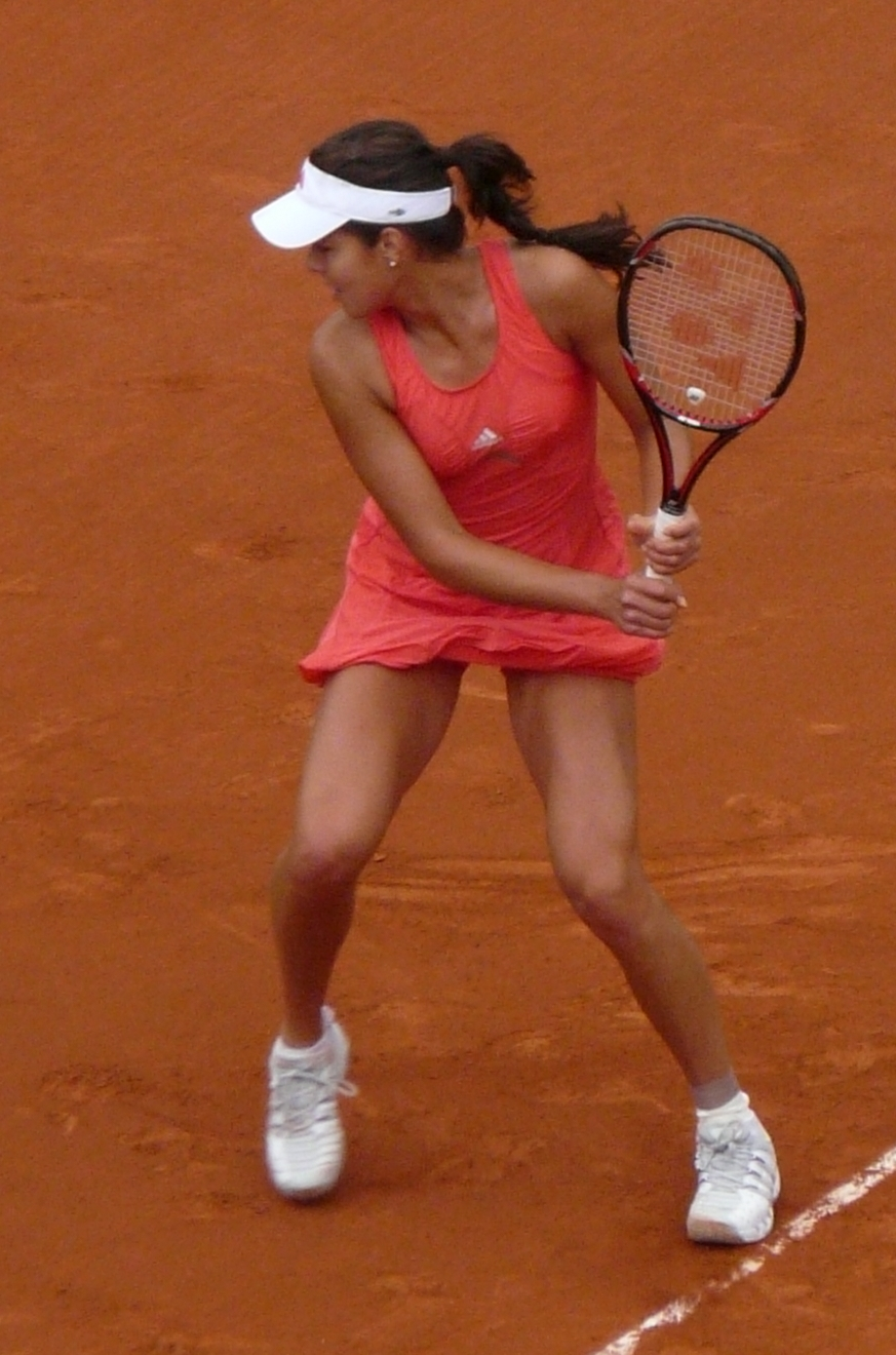 Ana Ivanović against Patty Schnyder in the 2008 French Open quarterfinals